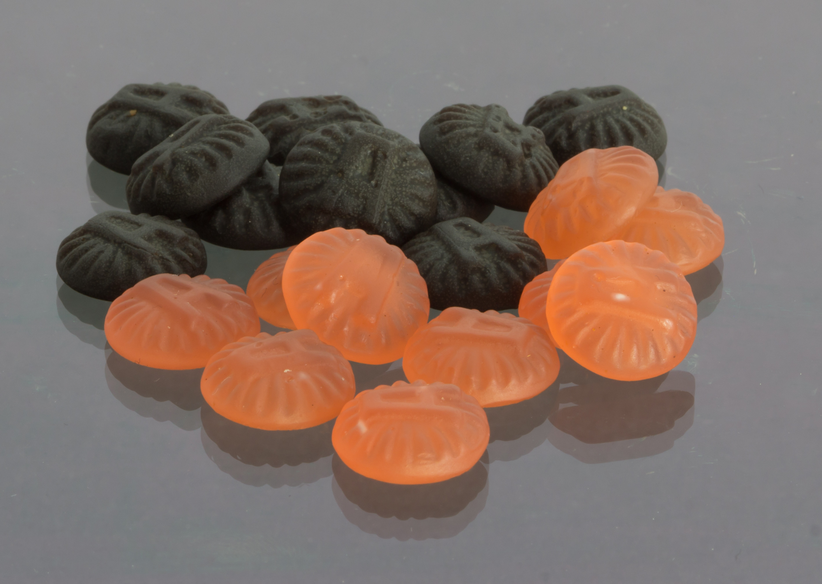 Läckerol Salmiak and Raspberry Lemongrass